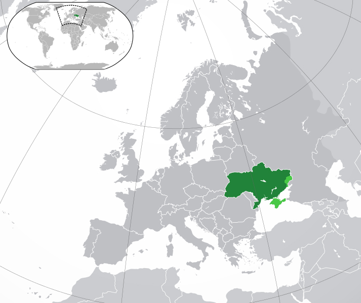 Ukraine and its territories out of the control as for December 2014 marked with light-green.